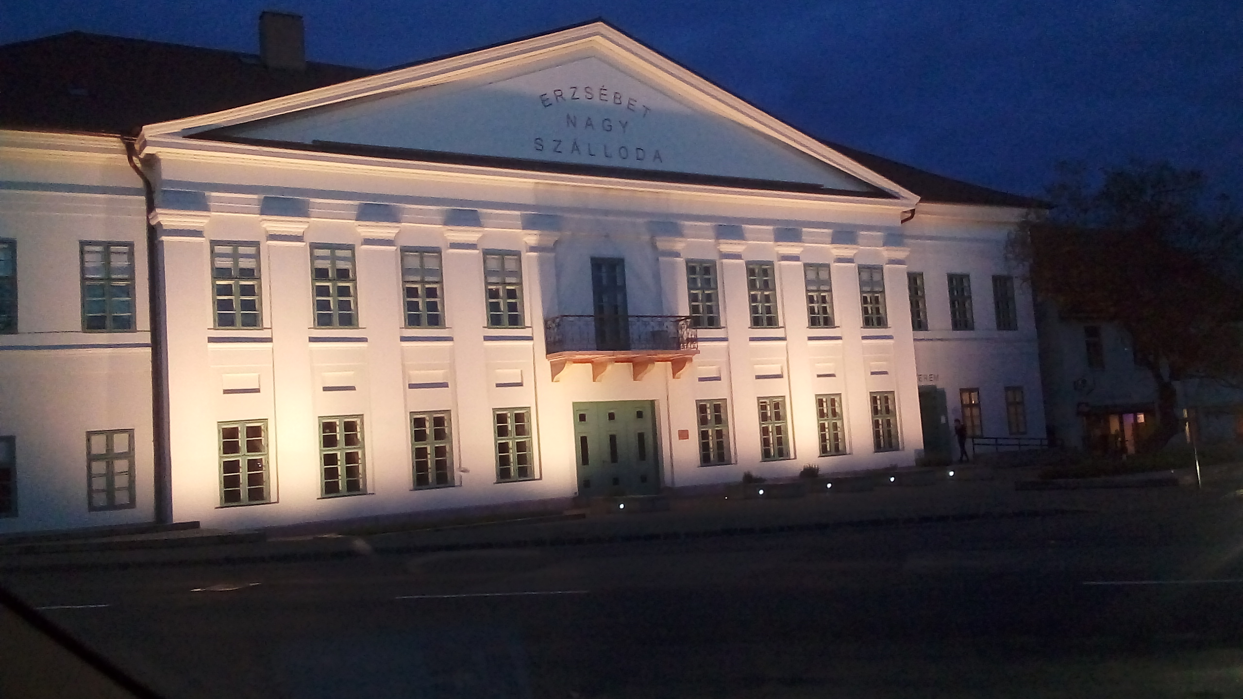 Erzsébet Grand Hotel in Paks, Hungary by night